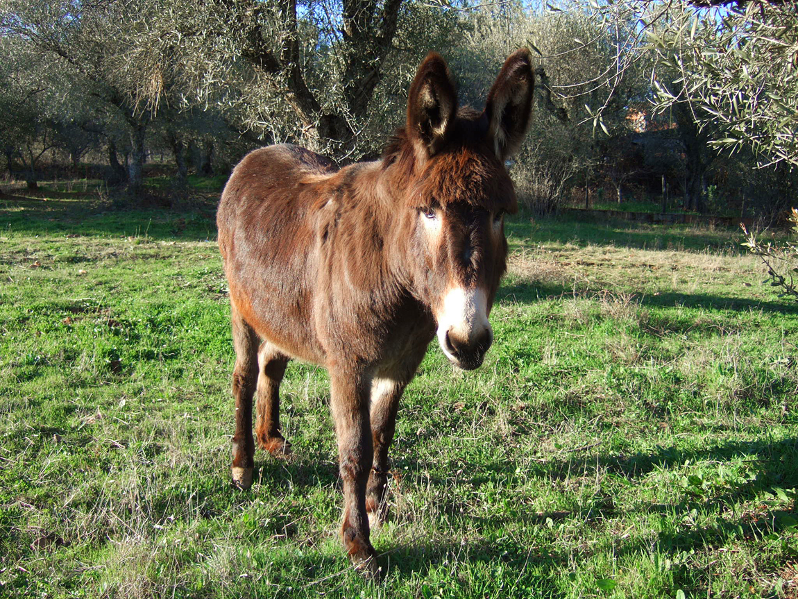 Picture of a mirandese donkey